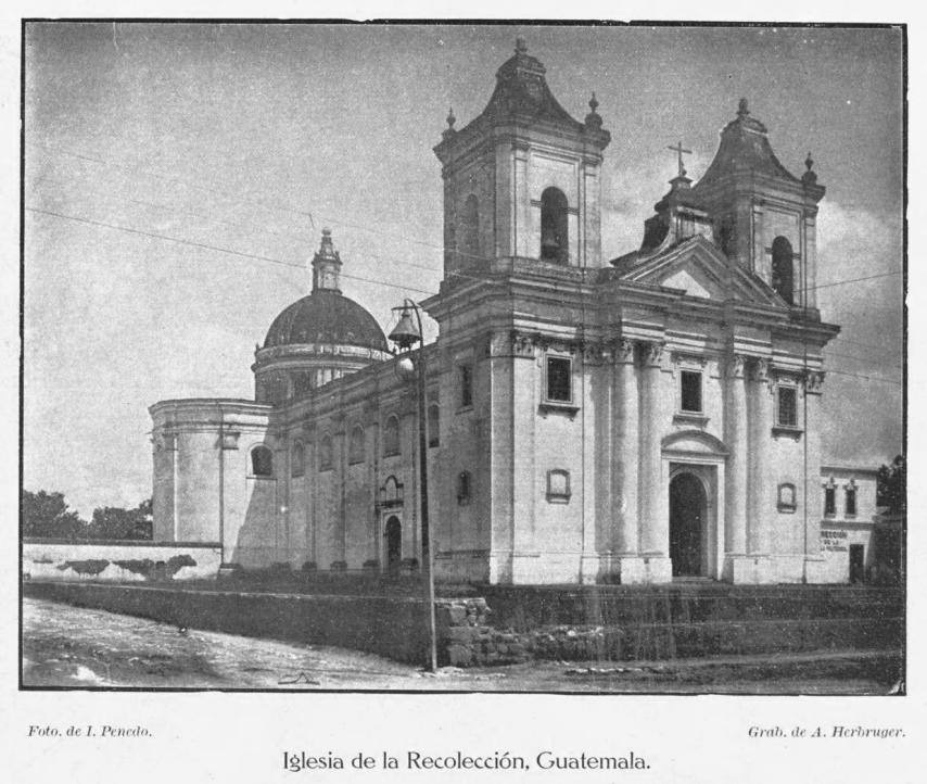 La Recoleccion in 1911